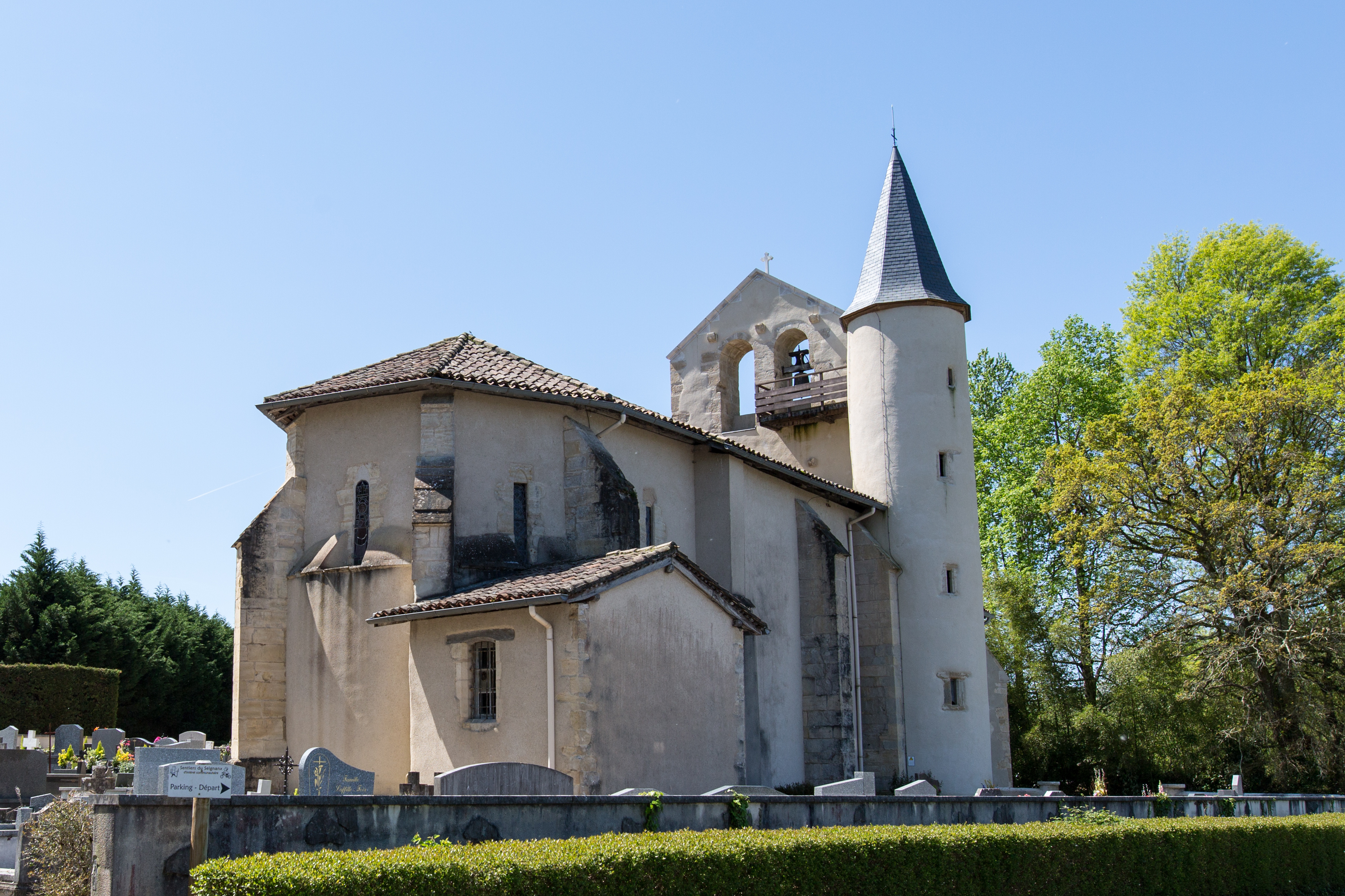 Église de Biarrotte